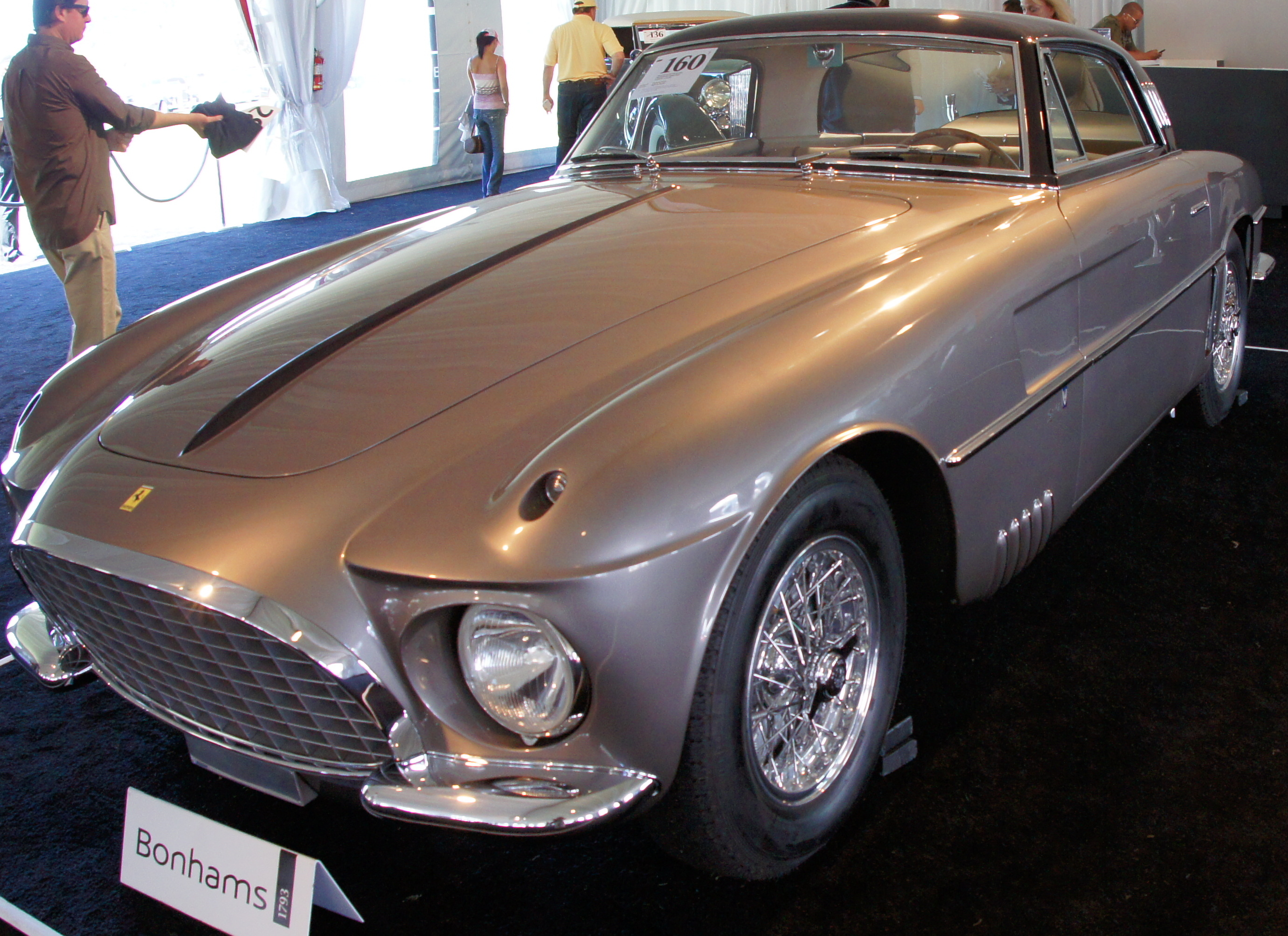 1953 Ferrari 250 Europa Coupe Vignale s/n 0313EU at the Quail 2013 Bonhams auction where it sold for USD 2,8 million.[1]